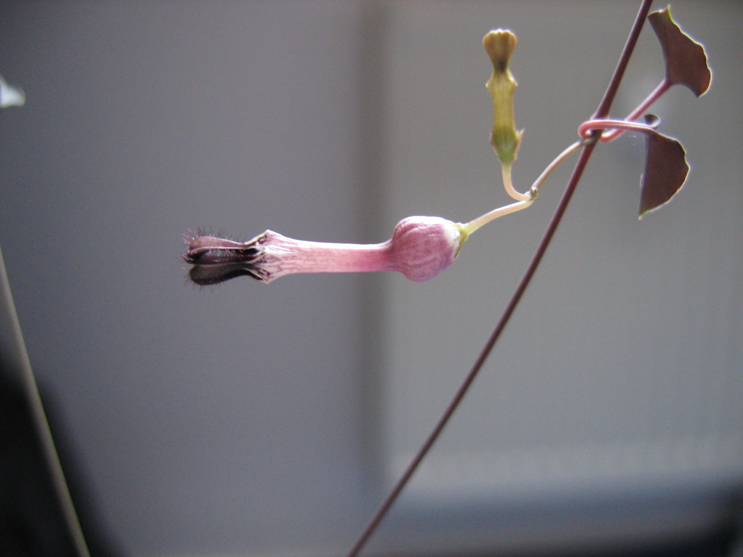 Ceropegia linearis ssp. woodii